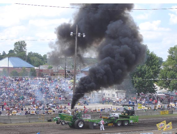 Tractor Pull Bowling Green Ohio 2007. Photo by Mike Sharp.